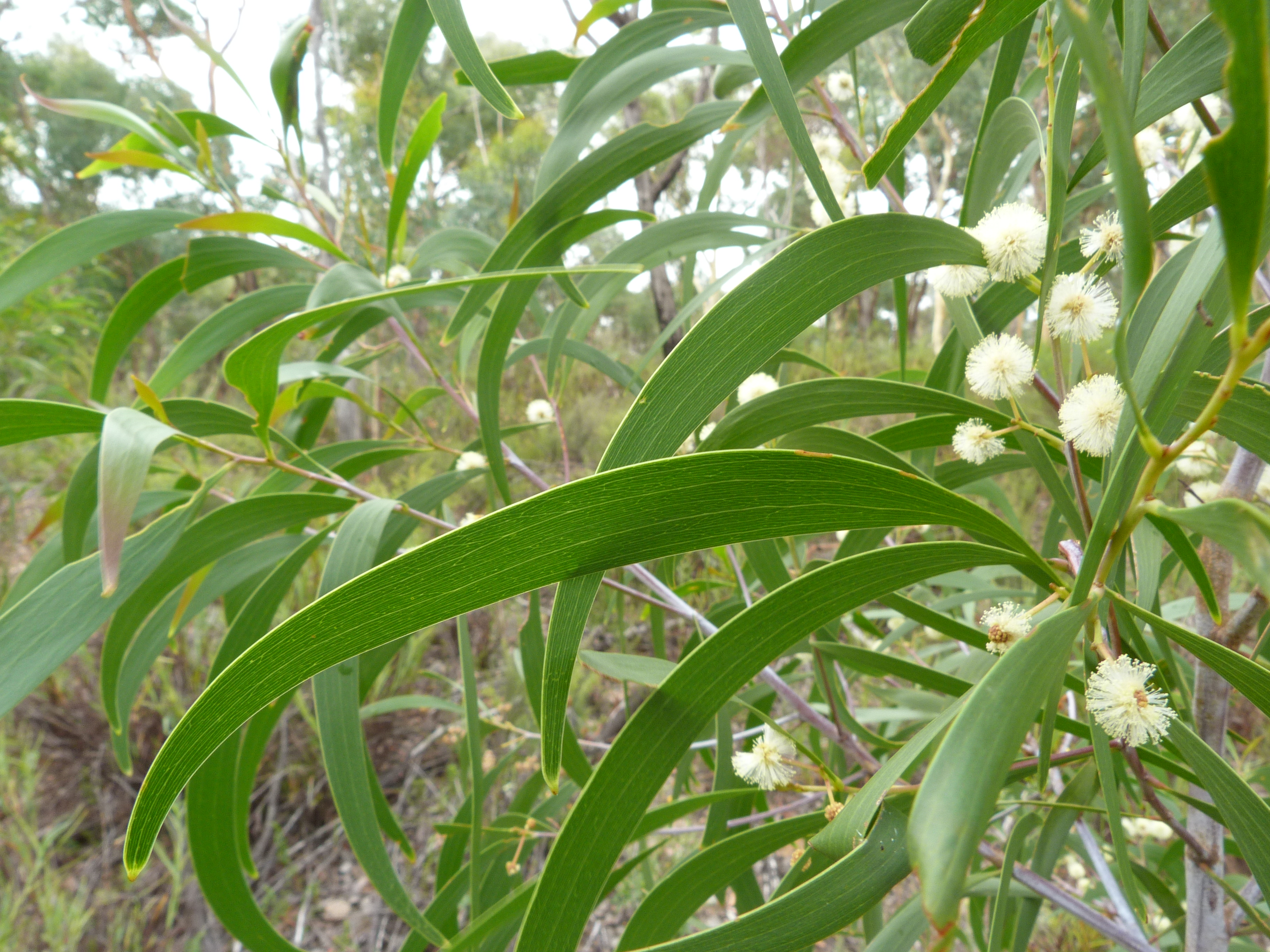 Acacia implexa Benth., Black Mountain, Canberra, ACT, 16 February 2011